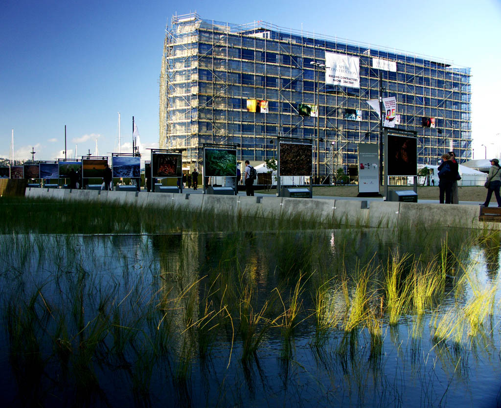 WaitangiPark1 a pic showing the Chaffers Marina Apartment building, formerly known as the Herd st Post Office, and the wetlands that now has the Waitangi stream flowing through it.